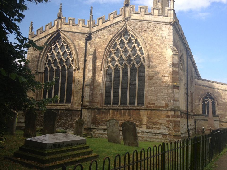 Church of St Mary the Virgin in Higham Ferrers, Northamptonshire